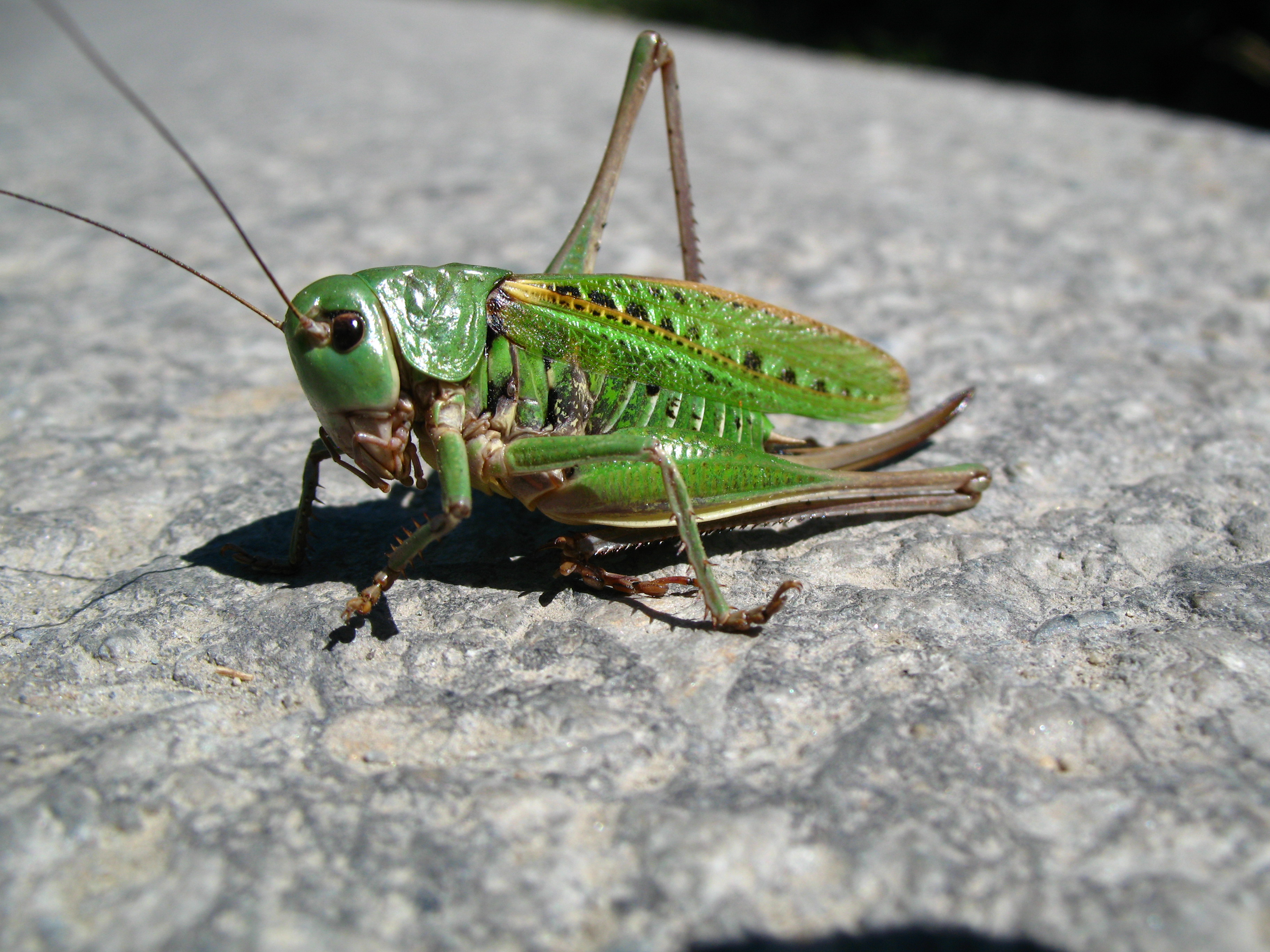 Katydids (Tettigoniidae), Zermatt, Switzerland